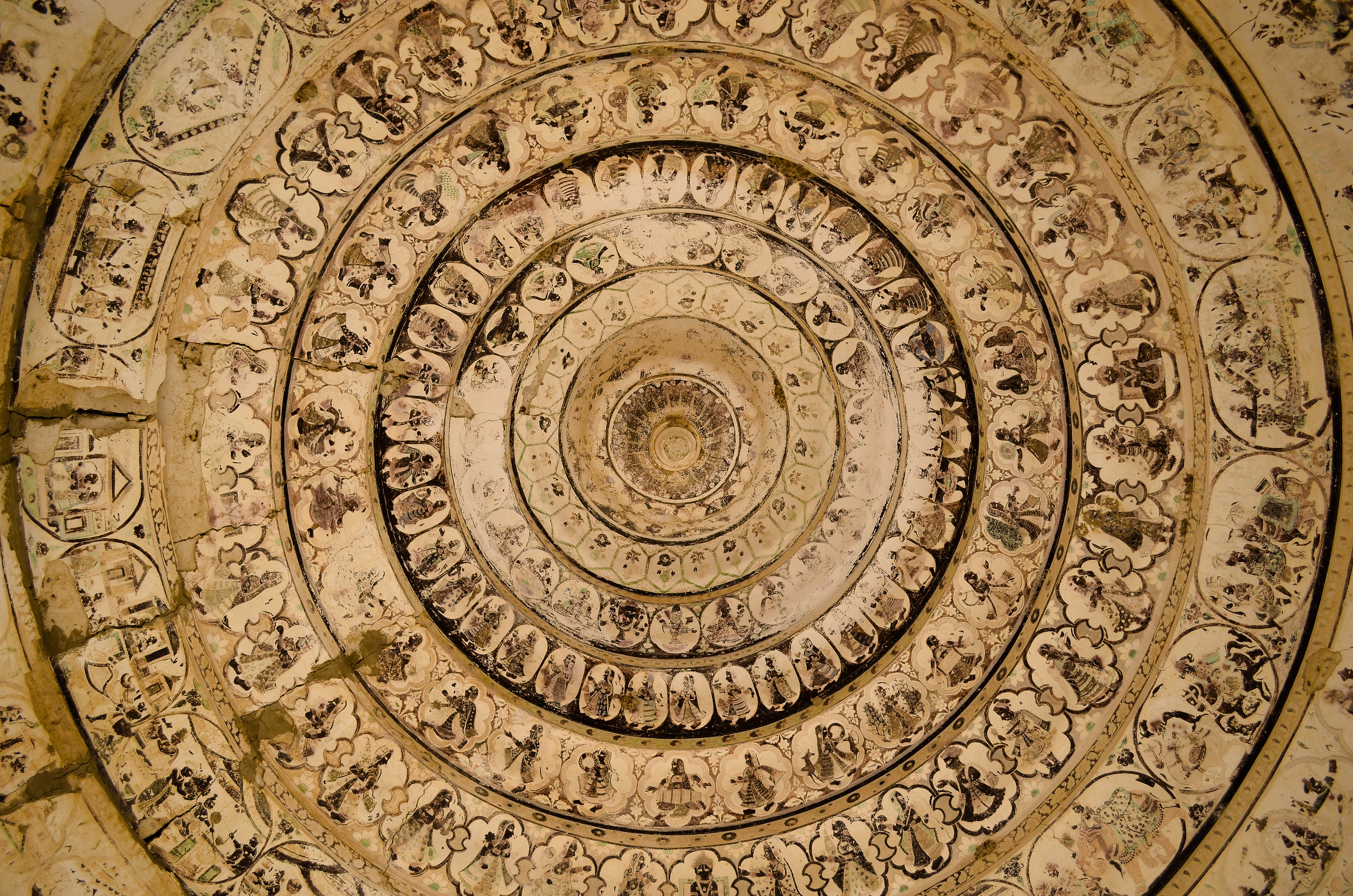 Beautiful art of Hindu heritage and culture painted on the inner side of Gori Temple's dome (Sindh) This is a photo of a monument in Pakistan identified as the Unknown